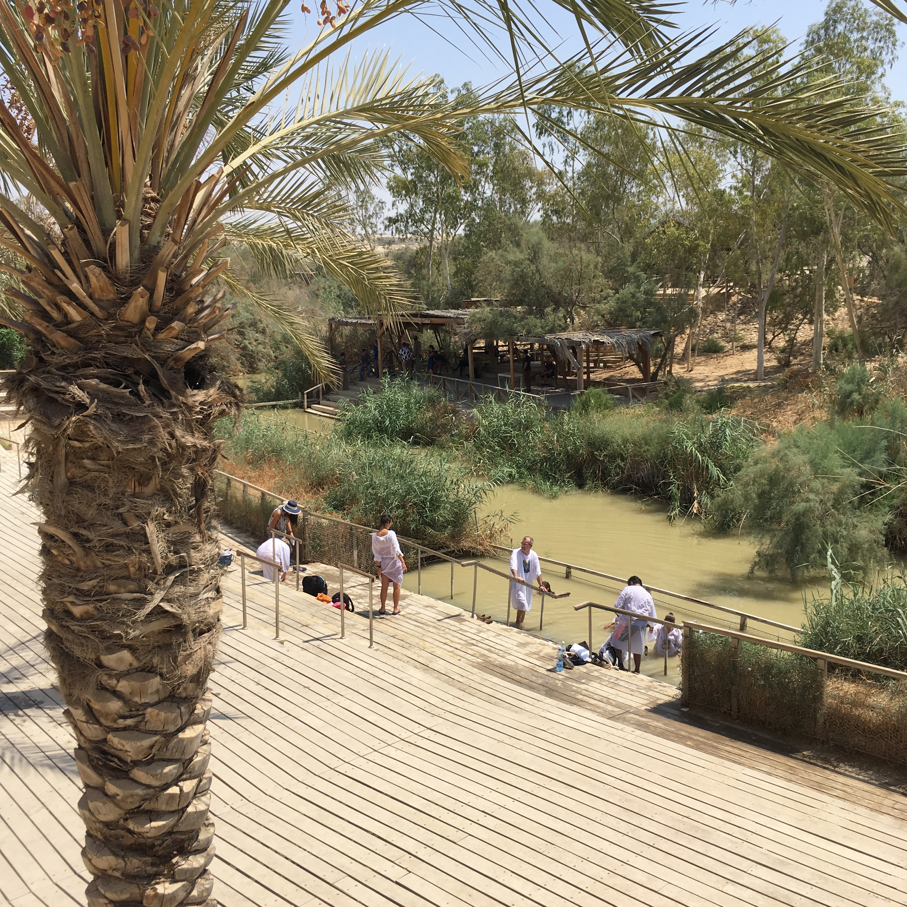 Baptism in Jordan River from Palestinian/Israeli/West Bank perspective.